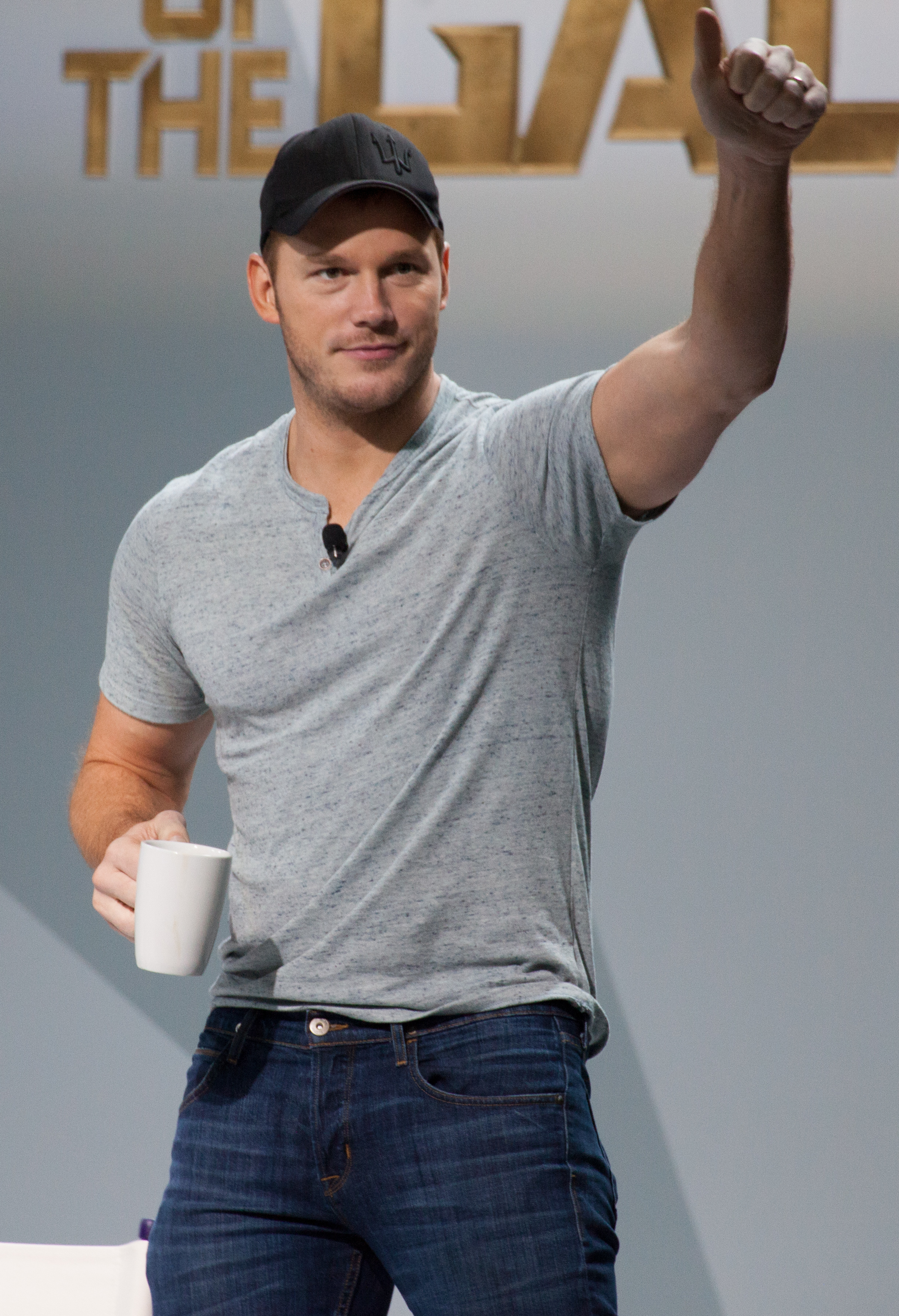 Chris Pratt is in the house